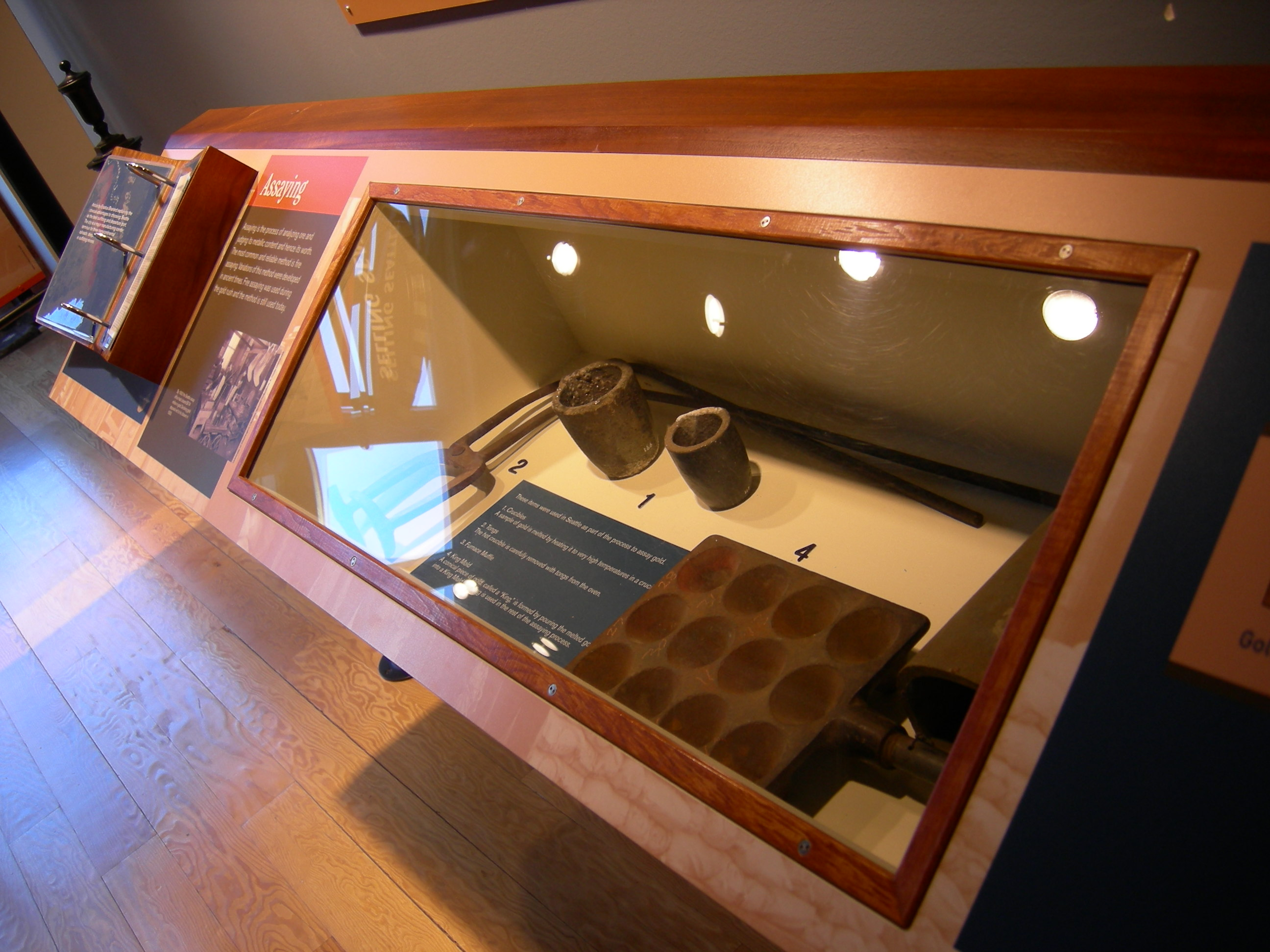 Display case showing assayists' tools (for assaying gold), in the museum that constitutes the Seattle unit of the Klondike Gold Rush National Historical Park. This display case shows crucibles, tongs, furnace muffle, key mold. Another angle on the display case can be seen in Image:Klondike Gold Rush Nat Hist Park Seattle unit 02.jpg. Because of reflections, a straight-on photo wouldn't work.